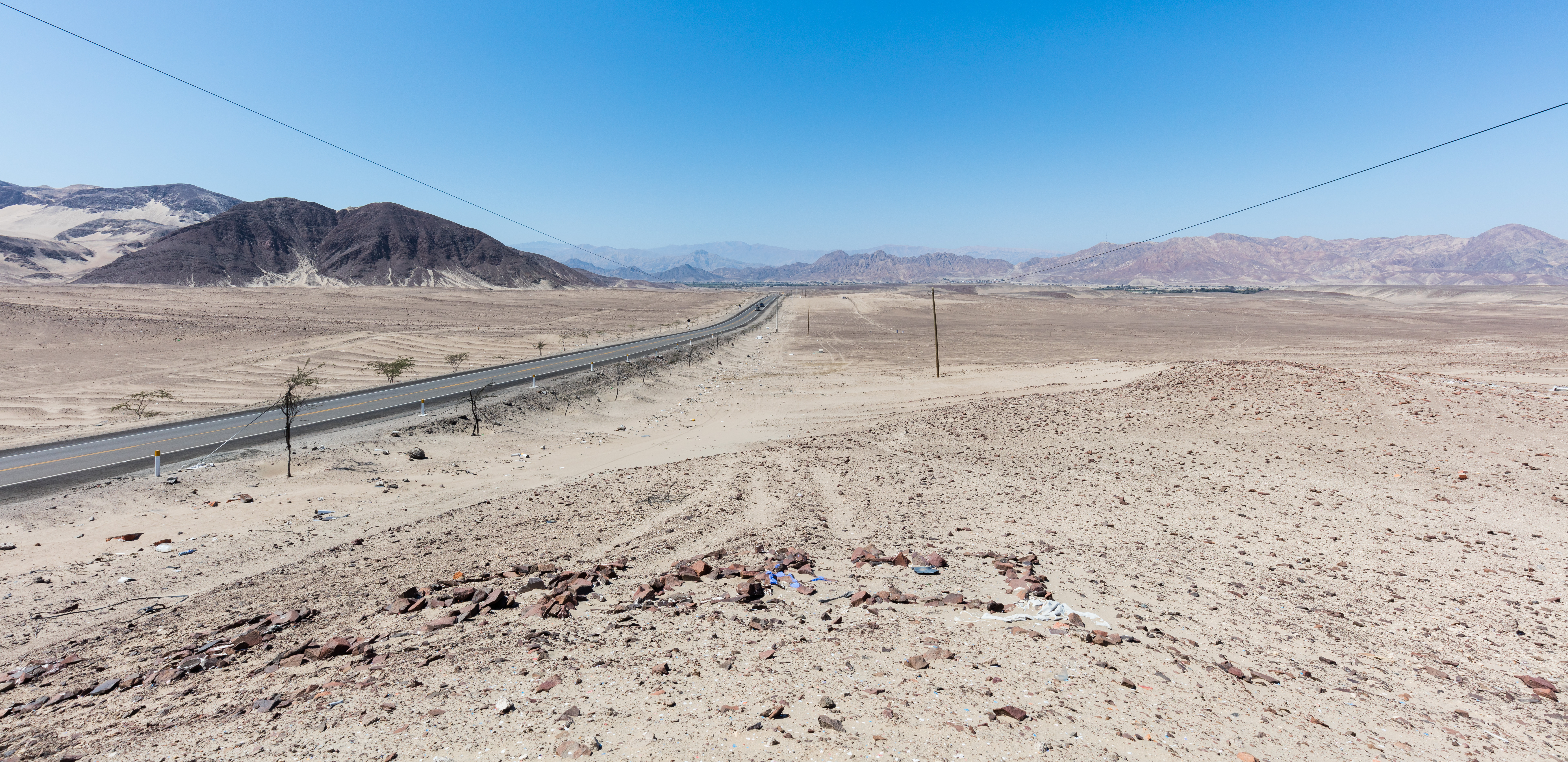 Landscape near Ica, Peru